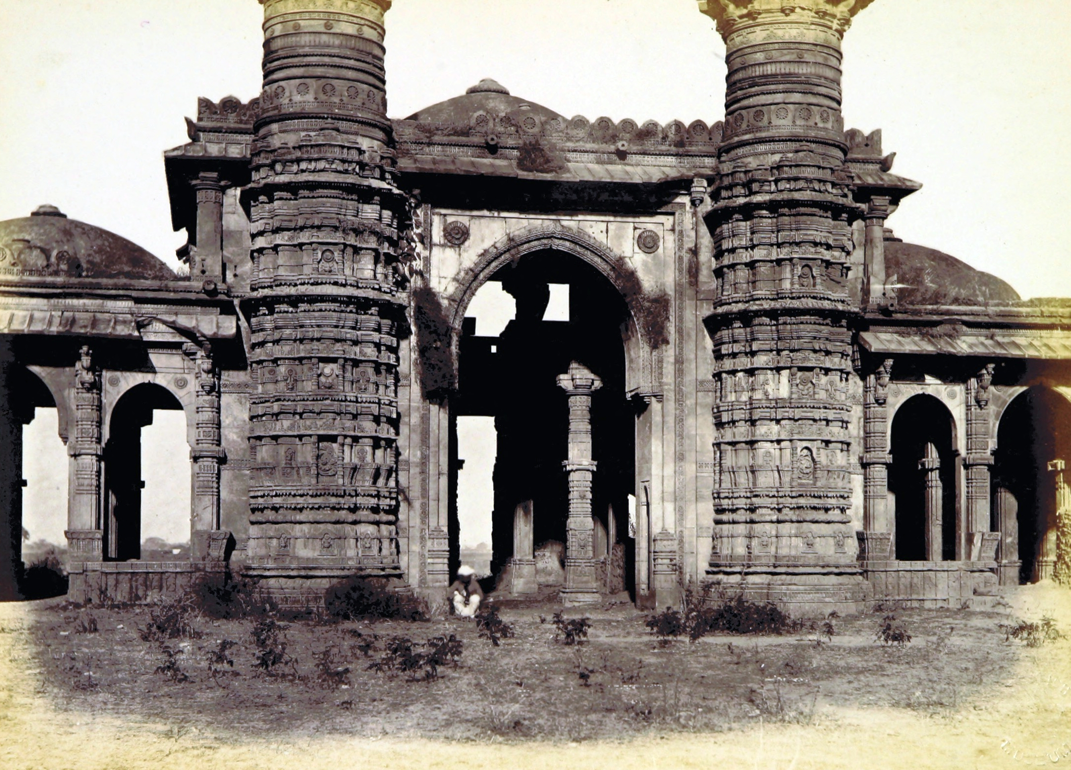 Image taken from: Title: "Architecture at Ahmedabad, the Capital of Goozerat, photographed by Colonel Biggs, ... With an historical and descriptive sketch, by T. C. H., ... and architectural notes by J. Fergusson, etc" Author: HOPE, Theodore Cracraft - Sir, K.C.S.I Contributor: BIGGS, Thomas. Contributor: FERGUSSON, James - Architect Shelfmark: "British Library HMNTS 10057.f.17.", "British Library OC V 6665" Page: 261 Place of Publishing: London Date of Publishing: 1866 Issuance: monographic Identifier: 001730119 Note: The colours, contrast and appearance of these illustrations are unlikely to be true to life. They are derived from scanned images that have been enhanced for machine interpretation and have been altered from their originals. If you wish to purchase a high quality copy of the page that this image is drawn from, please order it here. Please note that you will need to enter details from the above list - such as the shelfmark, the page, the book's volume and so on - when filling out your order. Following this or the link above will take you to the British Library's integrated catalogue. You will be able to download a PDF of the book this image is taken from, as well as view the pages up close with the 'itemViewer'. Click on the 'related items' to search for the electronic version of this work. Click here to see all the illustrations in this book and click here to browse other illustrations published in books in the same year. Please click on the tags shown on the right-hand side for other ways to browse the illustrations.